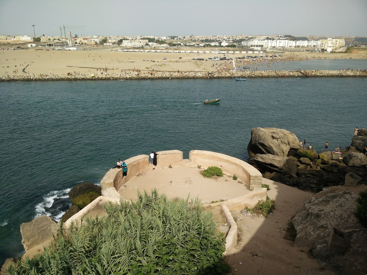 Boat in Bouregreg from Oudaya This is an image with the theme "Africa on the Move or Transport" from: Morocco